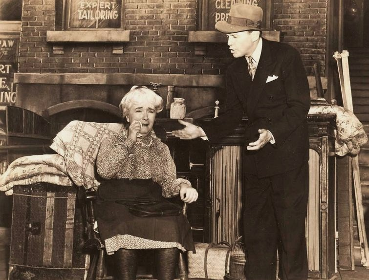 Margaret Seddon and Jack Benny in The Meanest Man in the World (1943) - publicity still (cropped - see source)